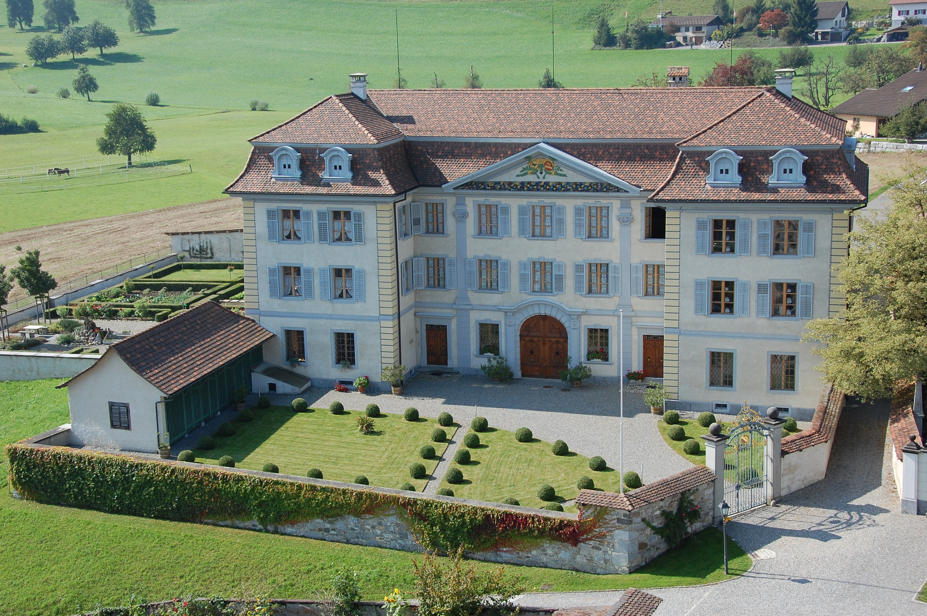 Propstei, Stift Beromünster